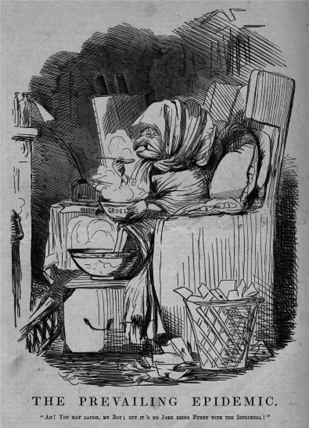 The Prevailing Epidemic. Mr Punch in front of a fire eating gruel: ‘It’s no joke being funny with the influenza’ Punch magazine, c. 1891. Engraving by J. Leech. The cartoon refers to the Russian Flu, the influenza pandemic 1889/1890.